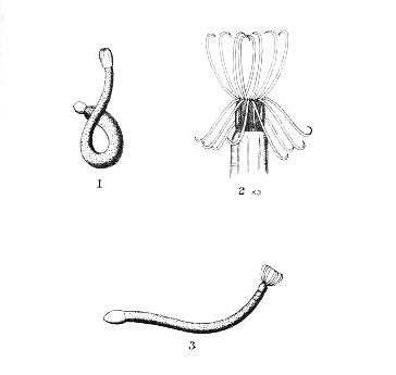 Ilustrations of the burrowing sea anemone Edwardsia neozelanica, drawn by H. Farquhar and accompanying its naming and description in 1898.